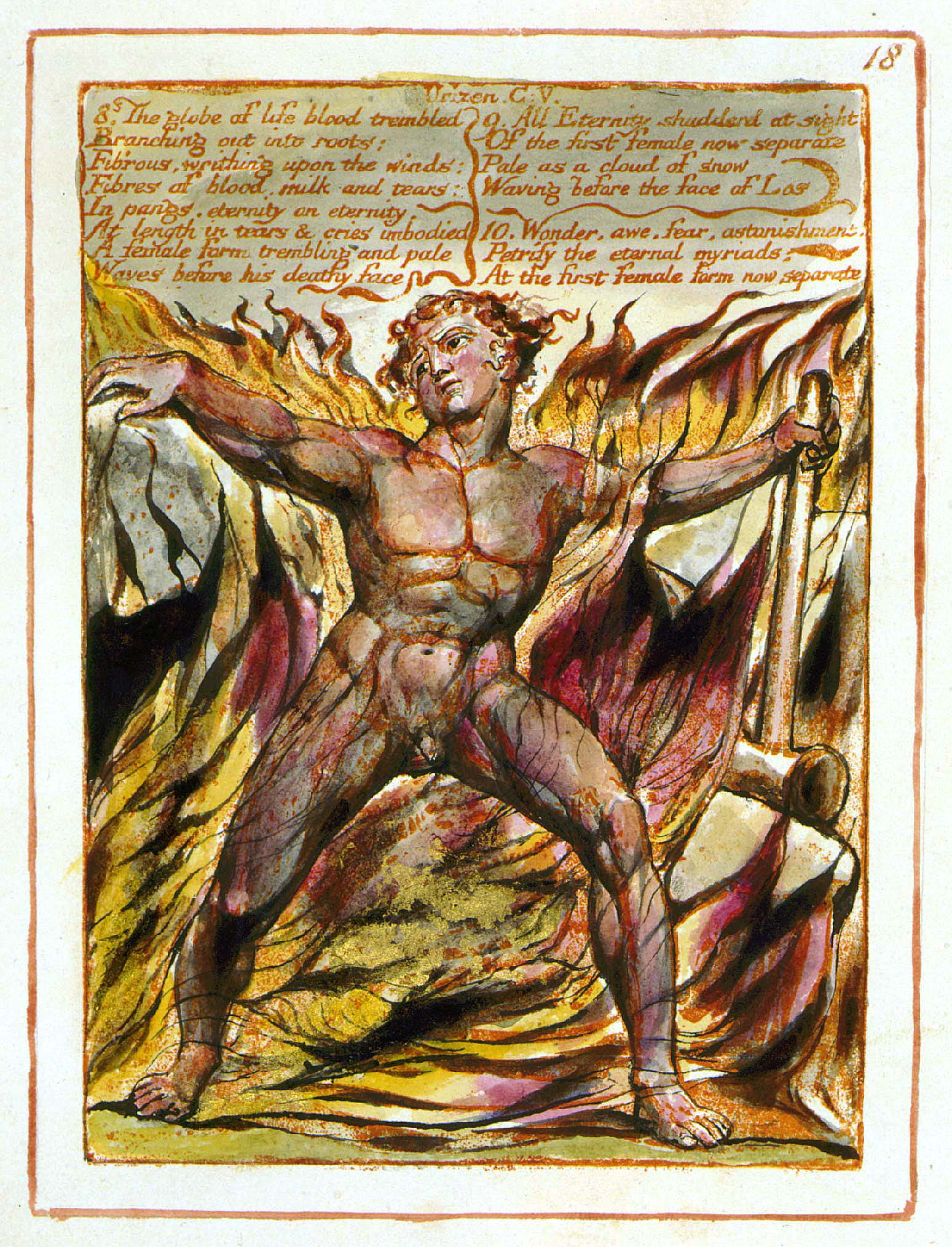 Los, as depicted in The Book of Urizen, copy G, object 18 (Bentley 18, Erdman 18, Keynes 18)